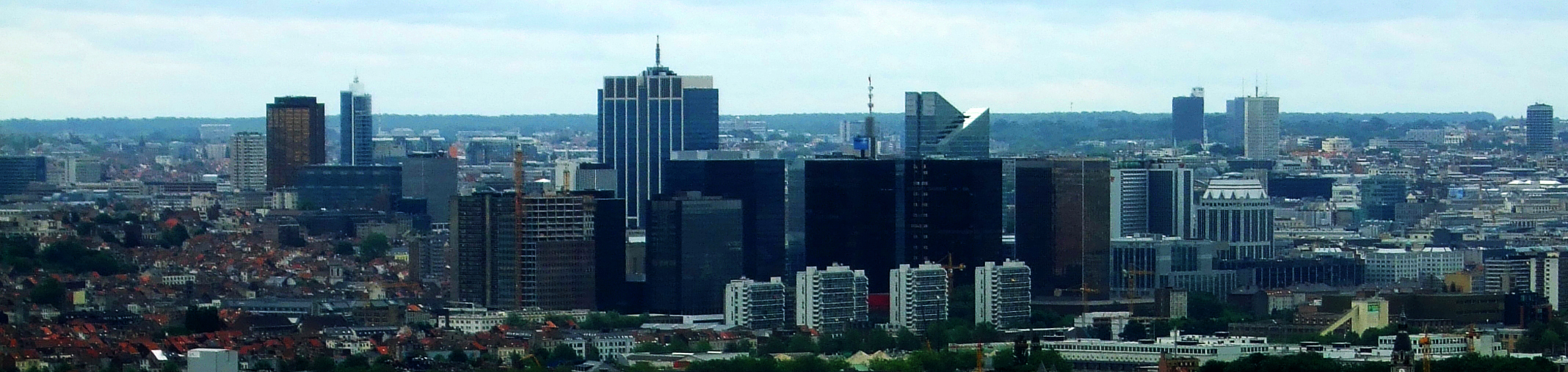 A panorama of the the Northern Quarter business district in Brussels